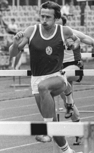 Factual corrections and alternative descriptions are encouraged separately from the original description. Additionally errors can be reported at this page to inform the Bundesarchiv. Original historic description: Thomas Munkelt ADN-ZB Weisflog -30.5.81 Cottbus: Beim DVFL-Sportfest gewann der Olympiasieger von Moskau Thomas Munkelt die 110m Hürden der Männer in 13,82 S.